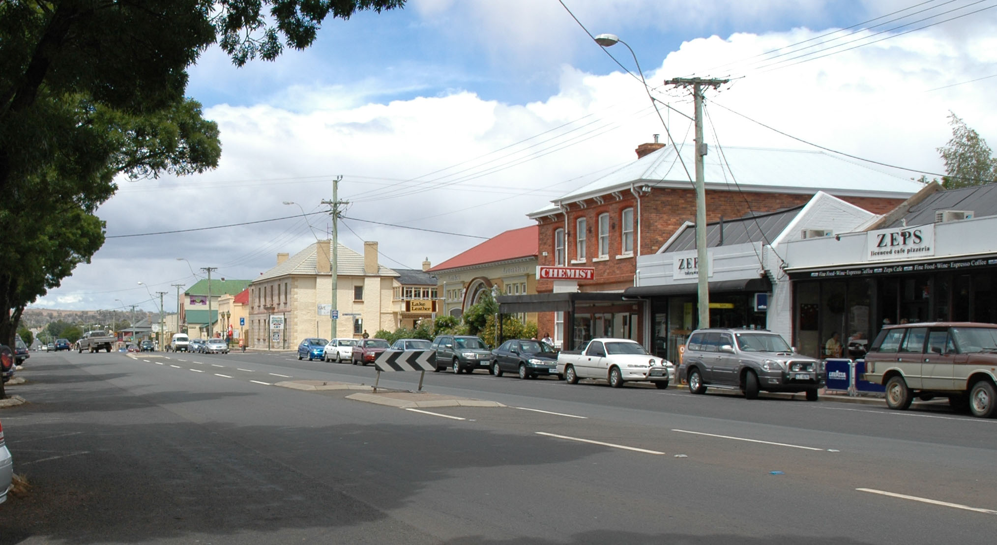 Main road through Campbell Town, Tasmania. Taken December 2007.